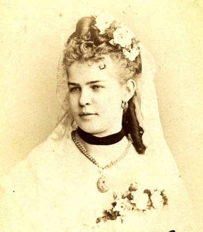 Portrait of Italian soprano Anna D'Angeri (1853–1907)